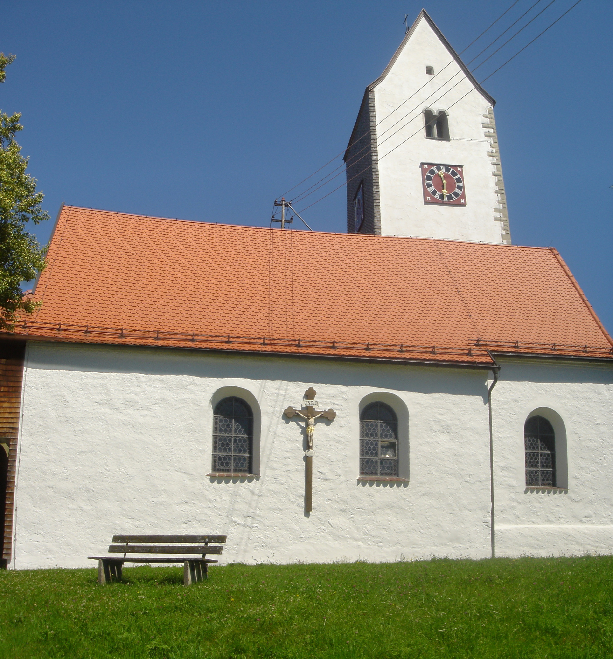 church in the district Ermengerst